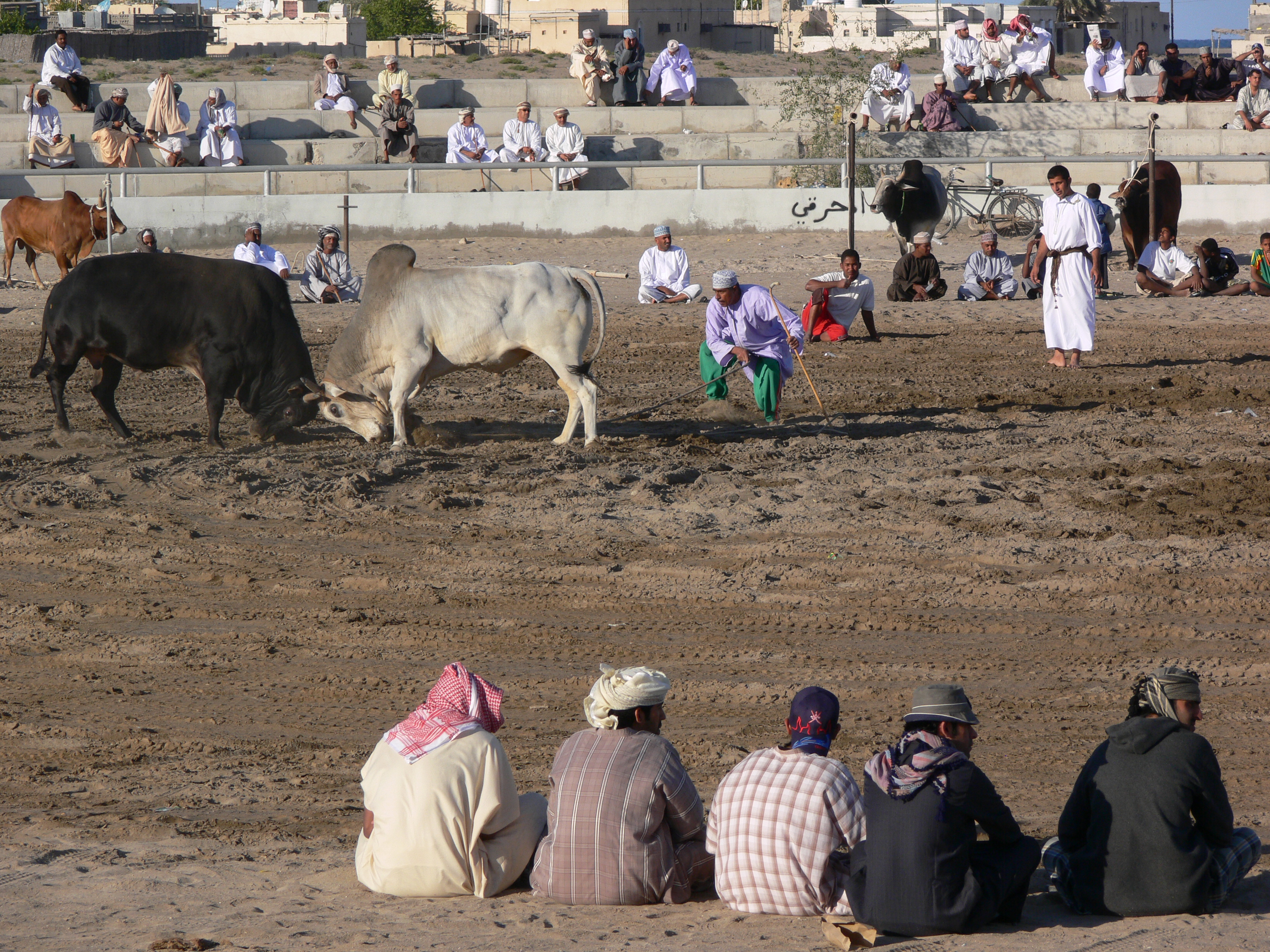 Barka (Oman). Front row, horns locked - P1050463.JPG